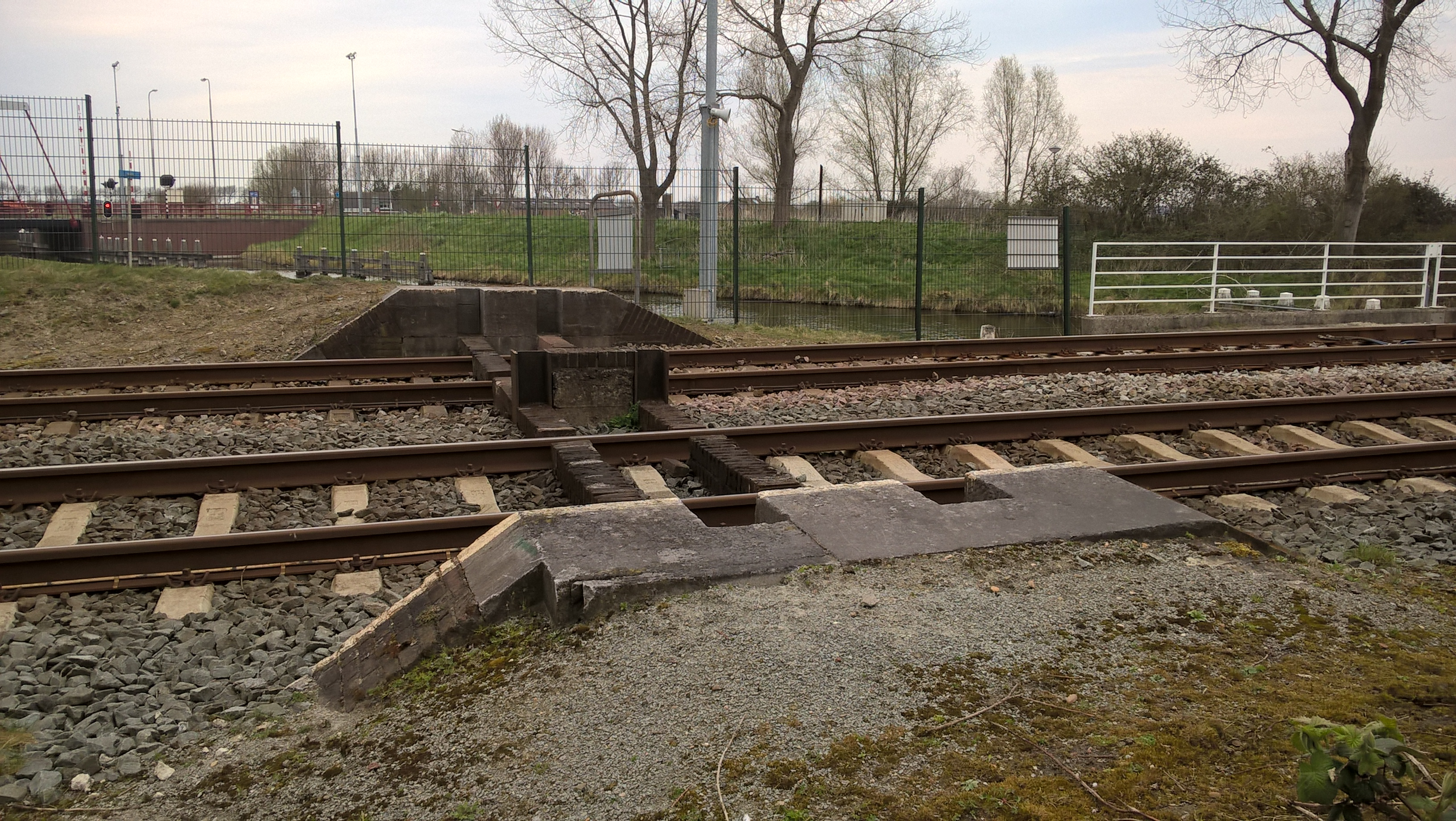 Railway bridge in Arnemuiden, the Netherlands